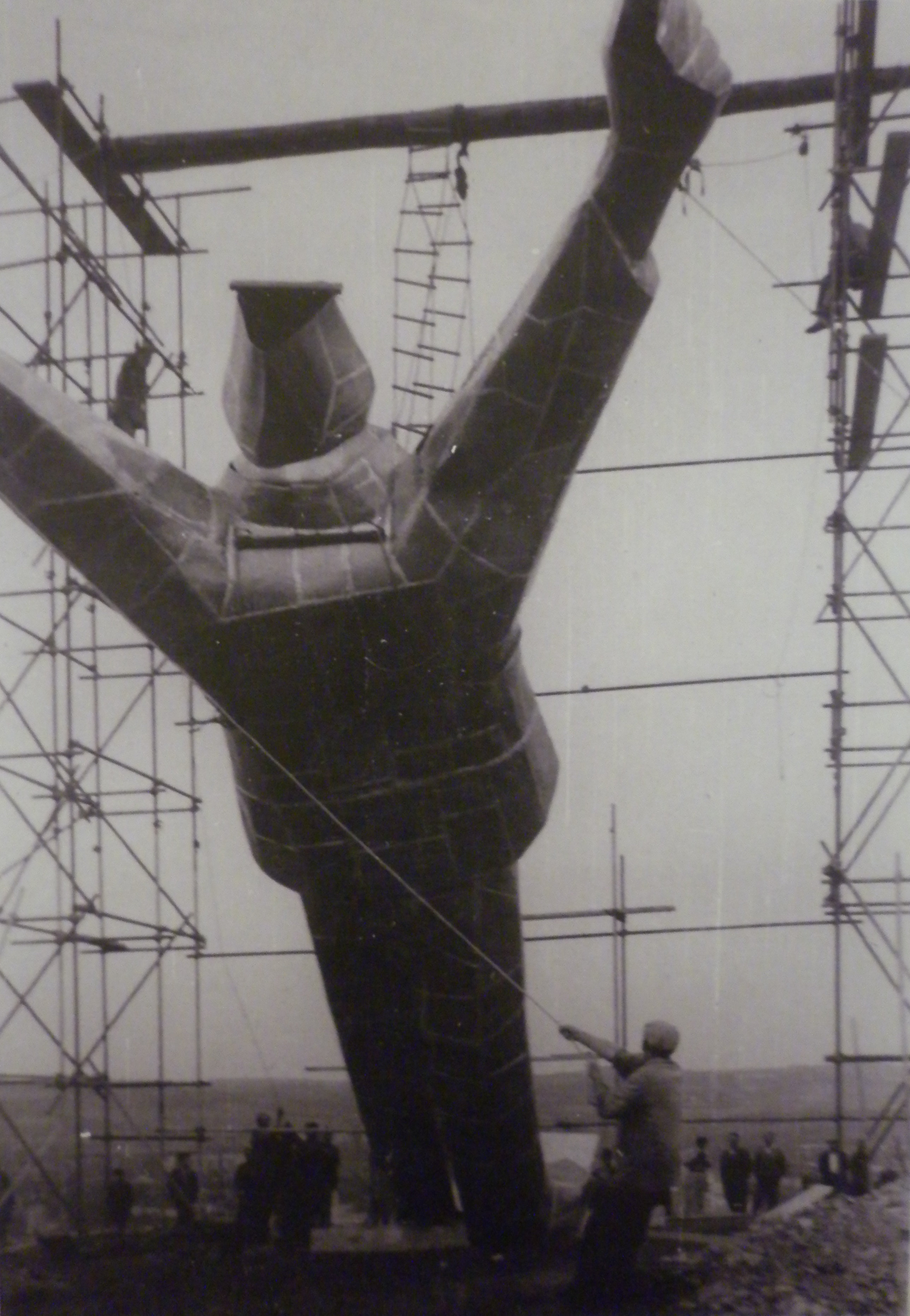 Final lifting of the Monument to Stjepan Stevo Filipović in 1960. Part of the exhibition "Vojin Bakić retrospective" (December 6, 2013 - March 2, 2014) in the Museum of the Contemporary Art in Zagreb.